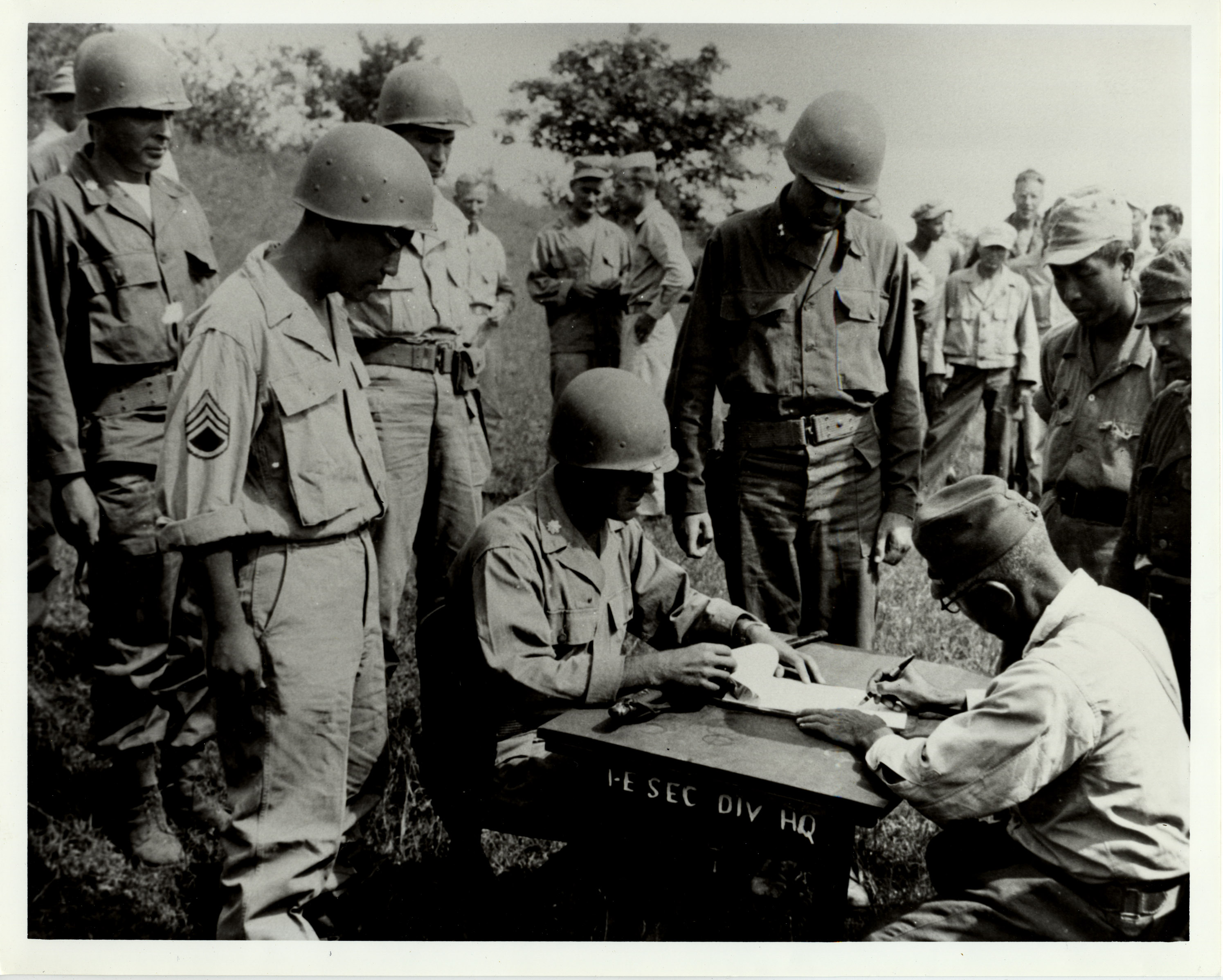 LTC SYLVESTER DEL CORSO, CO, 1ST BN, RECEIVING SURRENDER OF JAPANESE ON LUZON